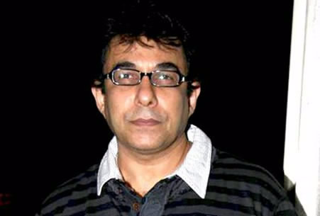 Deepak Tijori at the premiere of Shekhar Suman's play / Bollywood Photos